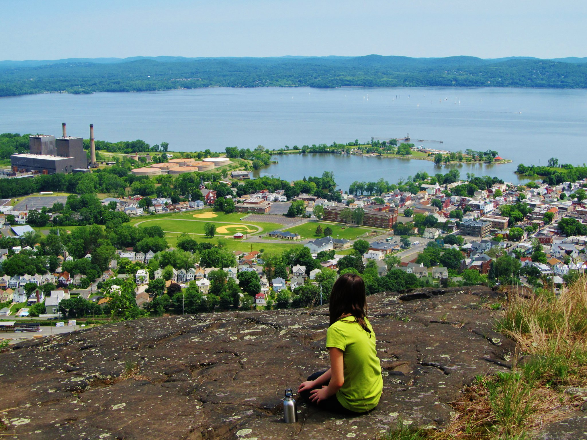 View of the Village of Haverstraw from atop High Tor Mountain. View NNE from High Tor Mountain, looking out onto the widest part of the Hudson River, toward Westchester County.